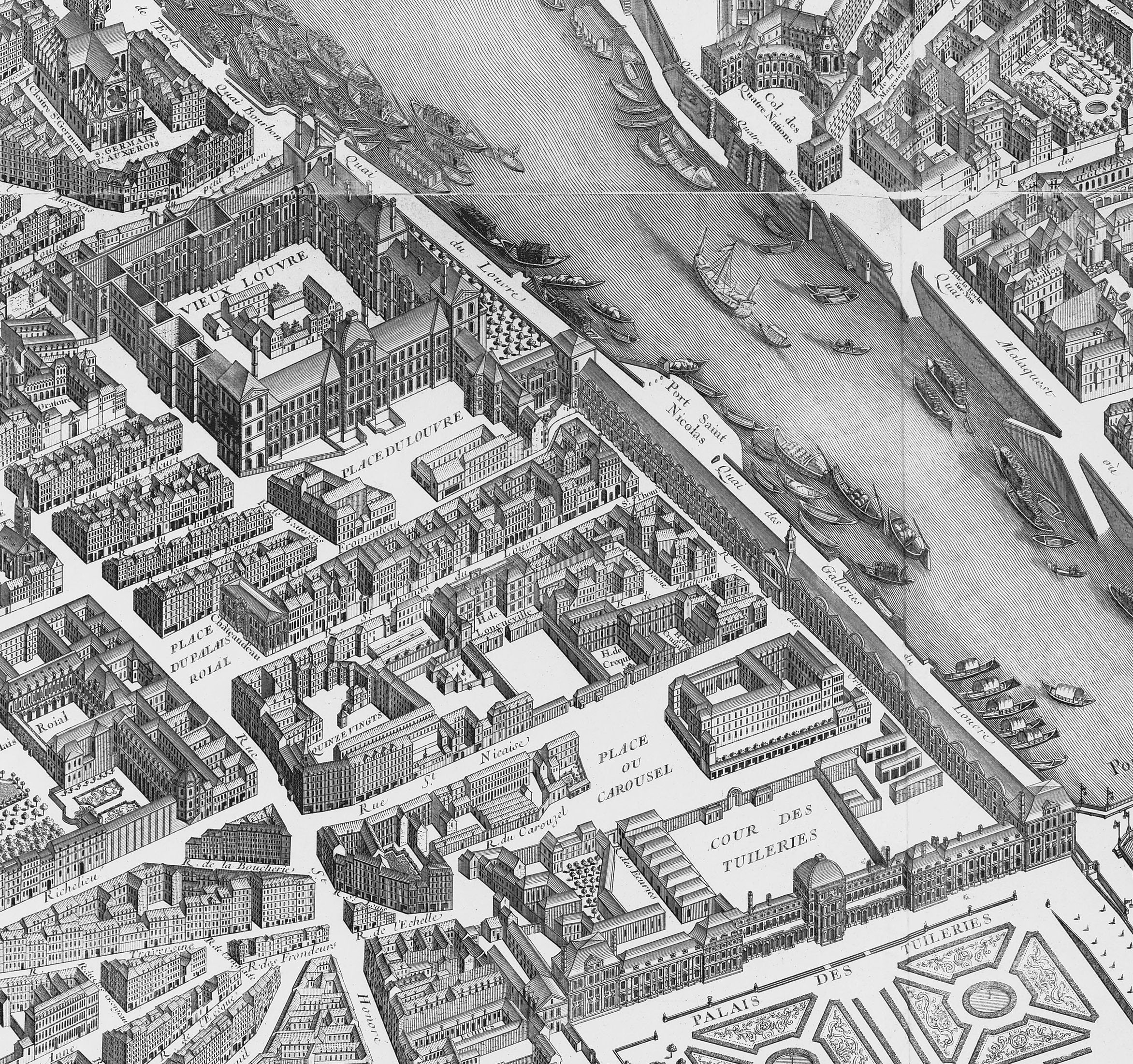 The Tuileries Palace and the Louvre on the 1739 Turgot map of Paris